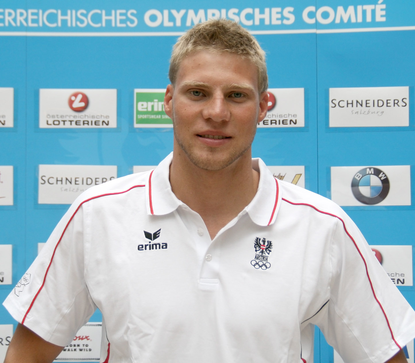 Swimmer Dinko Jukic at the hand-out of the Austrian teams official attire for the 2012 Summer Olympics in London (Marriott, Vienna).